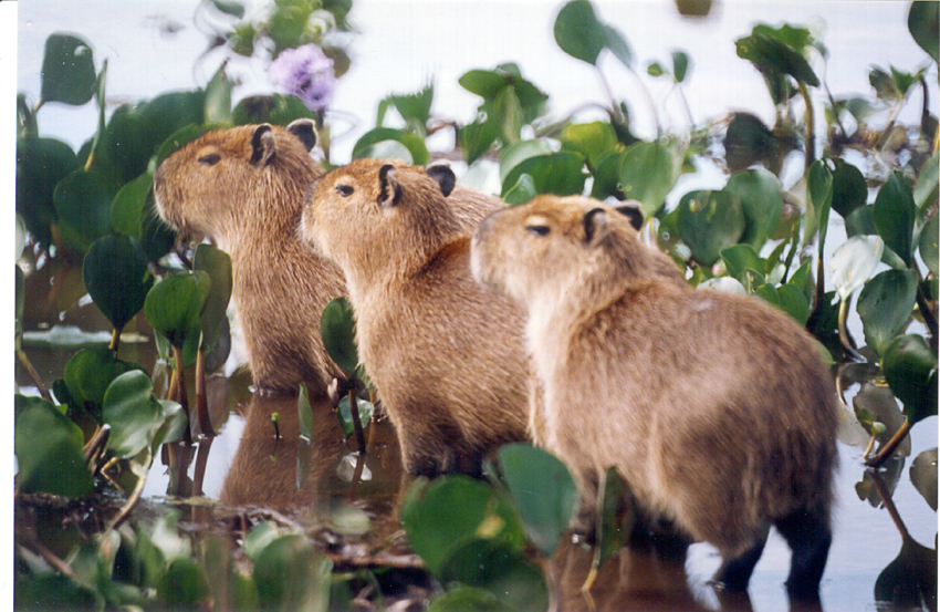 Young Capybara (Capivara in Portuguese) (Hydrochoerus hydrochaeris) Fazenda do Rio Negro, Pantanal, Brazil. Photographed on 8 August 1977